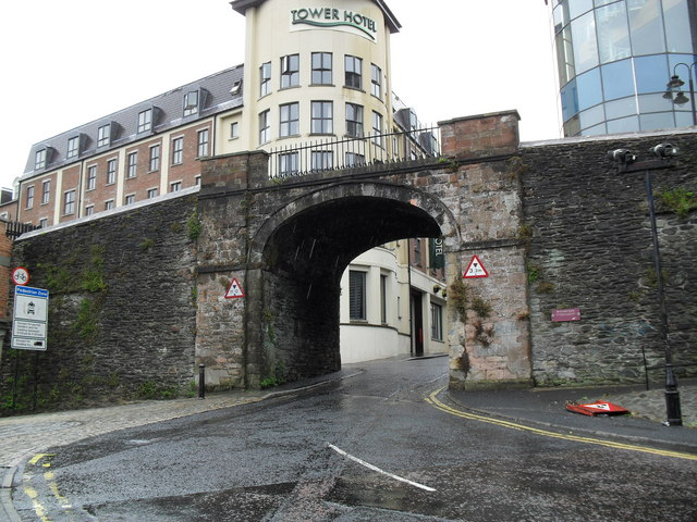 Butcher Gate, Derry Where Fahan Street becomes Butcher Street, leading up to the Diamond.